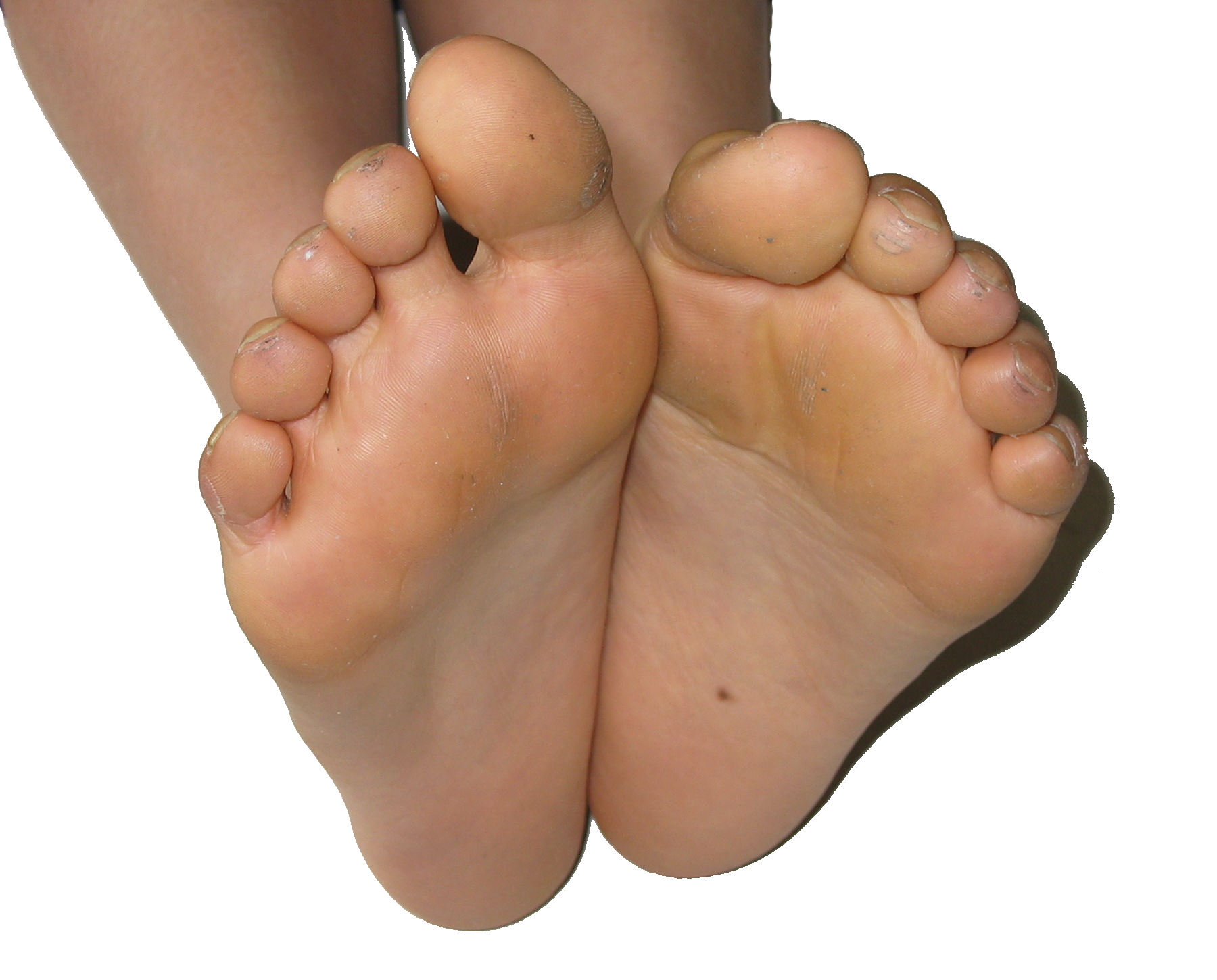 my soles photographed on a table